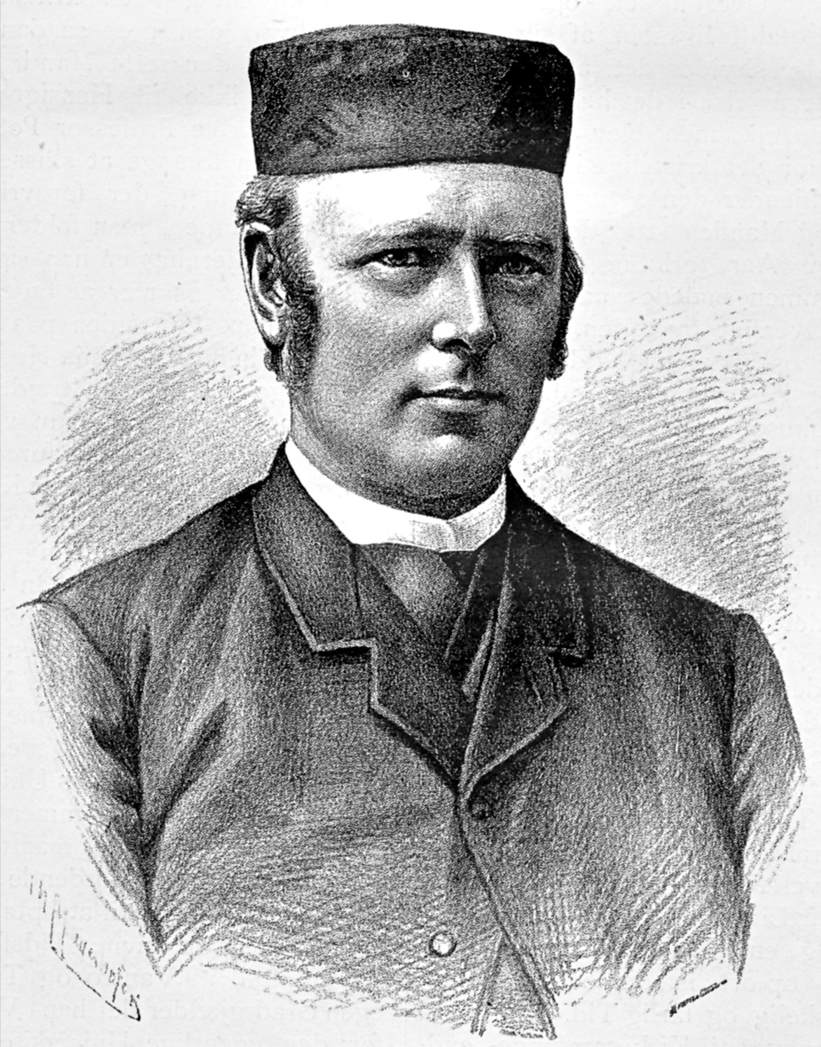 Portrait of Fredrik Petersen, Norwegian professor of theology. By unknown engraver, probably dead for more than 70 years.